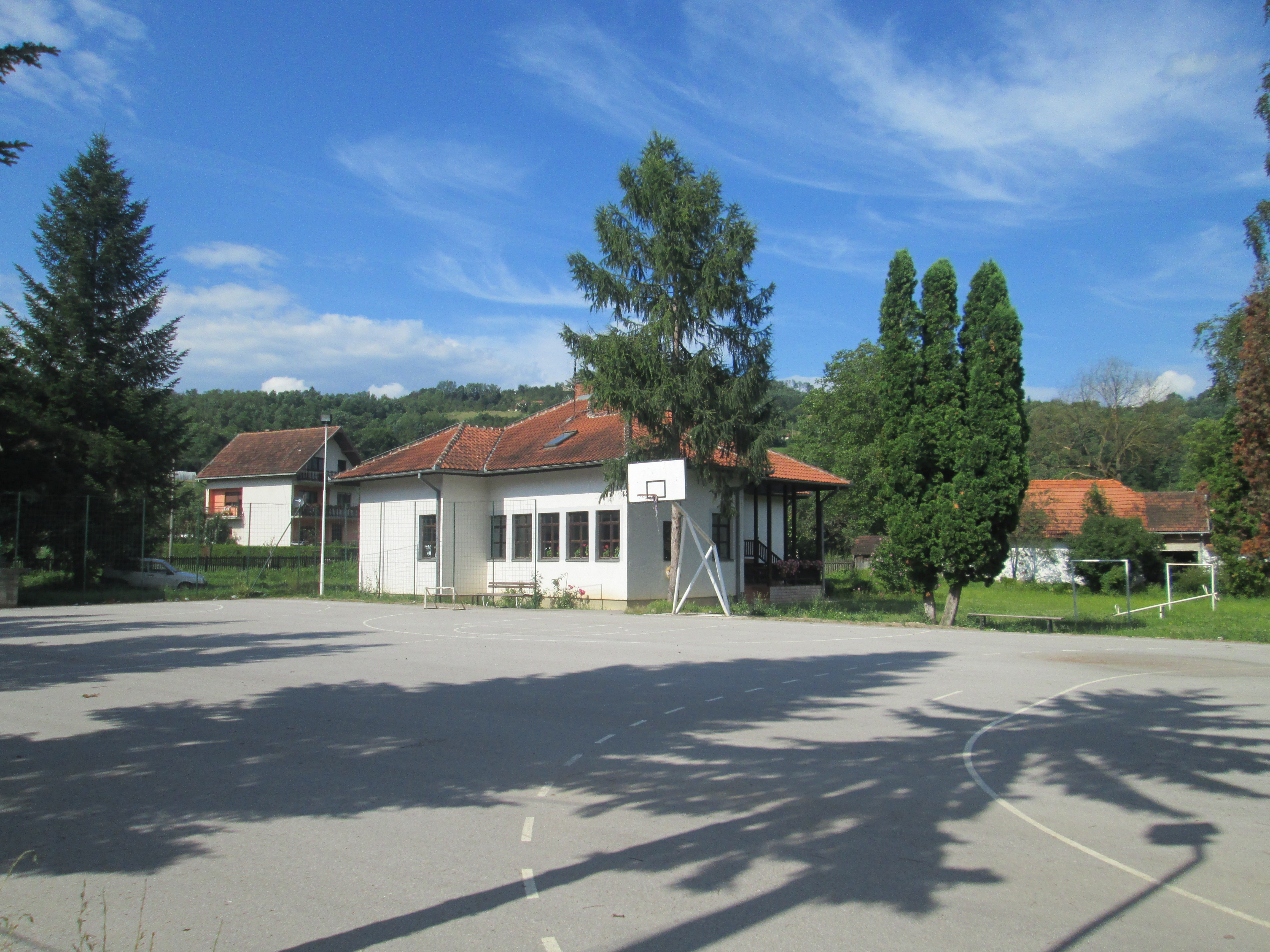 Primary school, Uzići Српски (ћирилица): Основна школа, Узићи